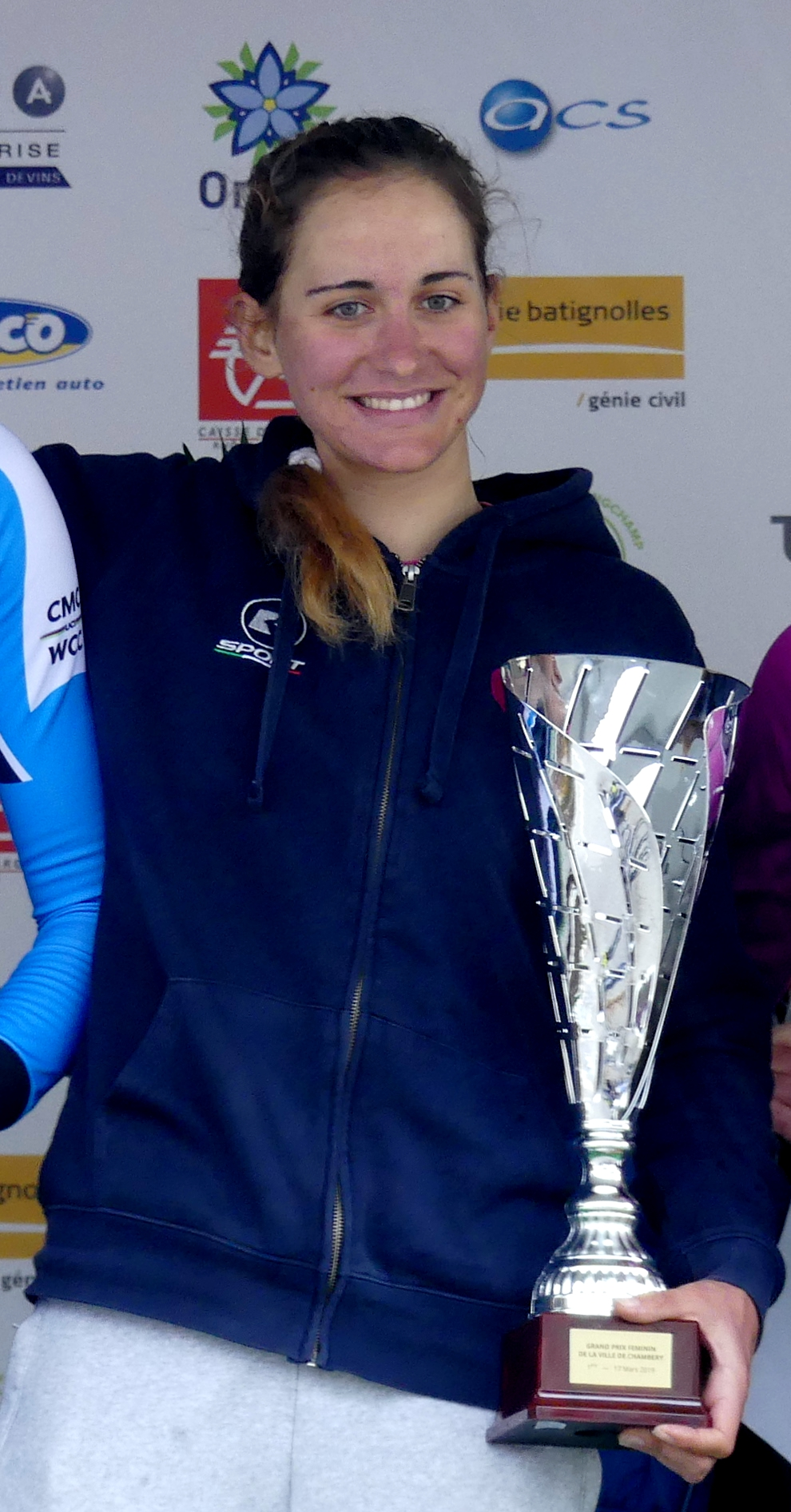 Sight of the Italian cyclist Katia Ragusa, winner of the 2019 Grand Prix de Chambéry race, in Savoie, France.